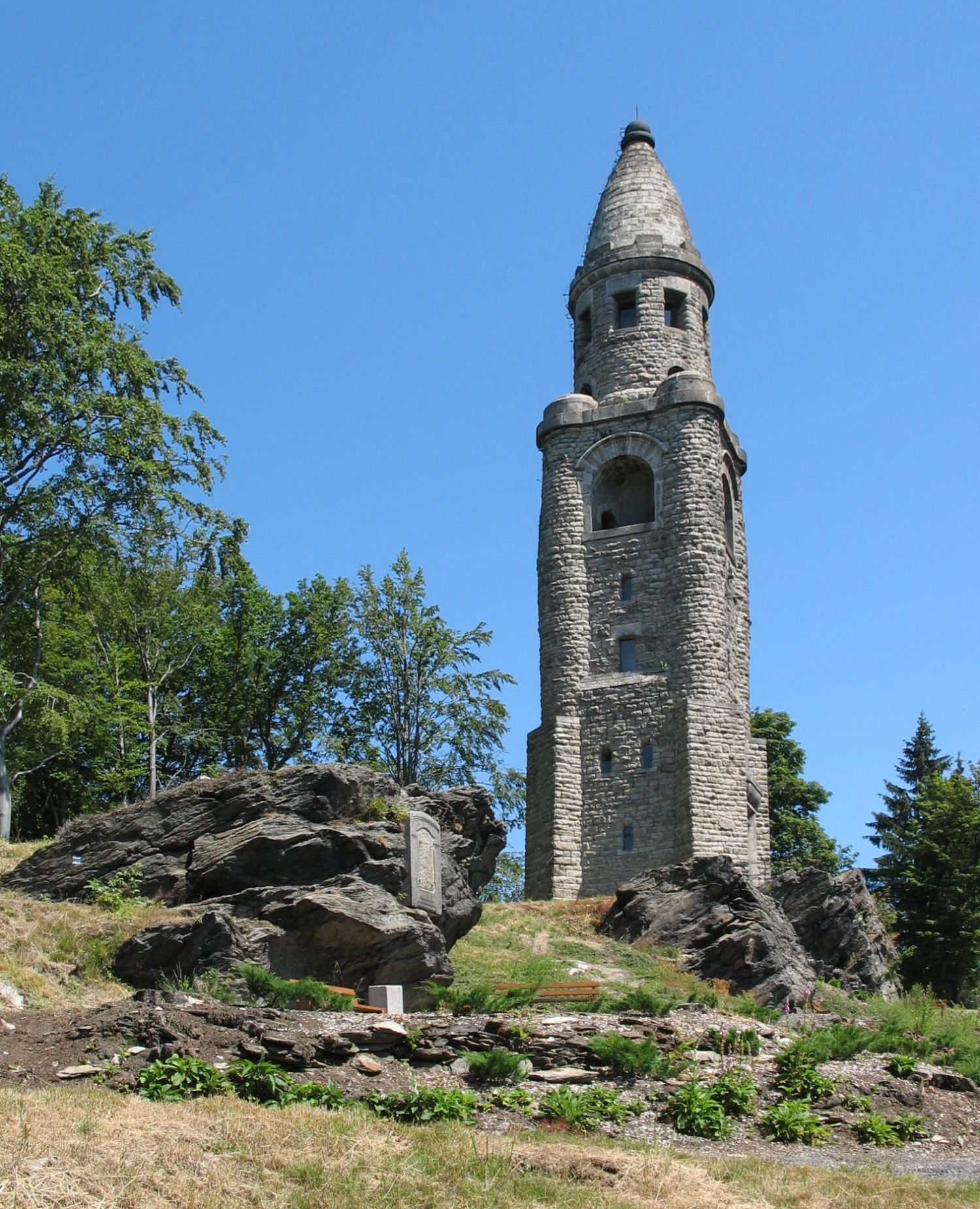 Watchtower on peak of mountain Háj, Fichtelgebirge, Czech republic